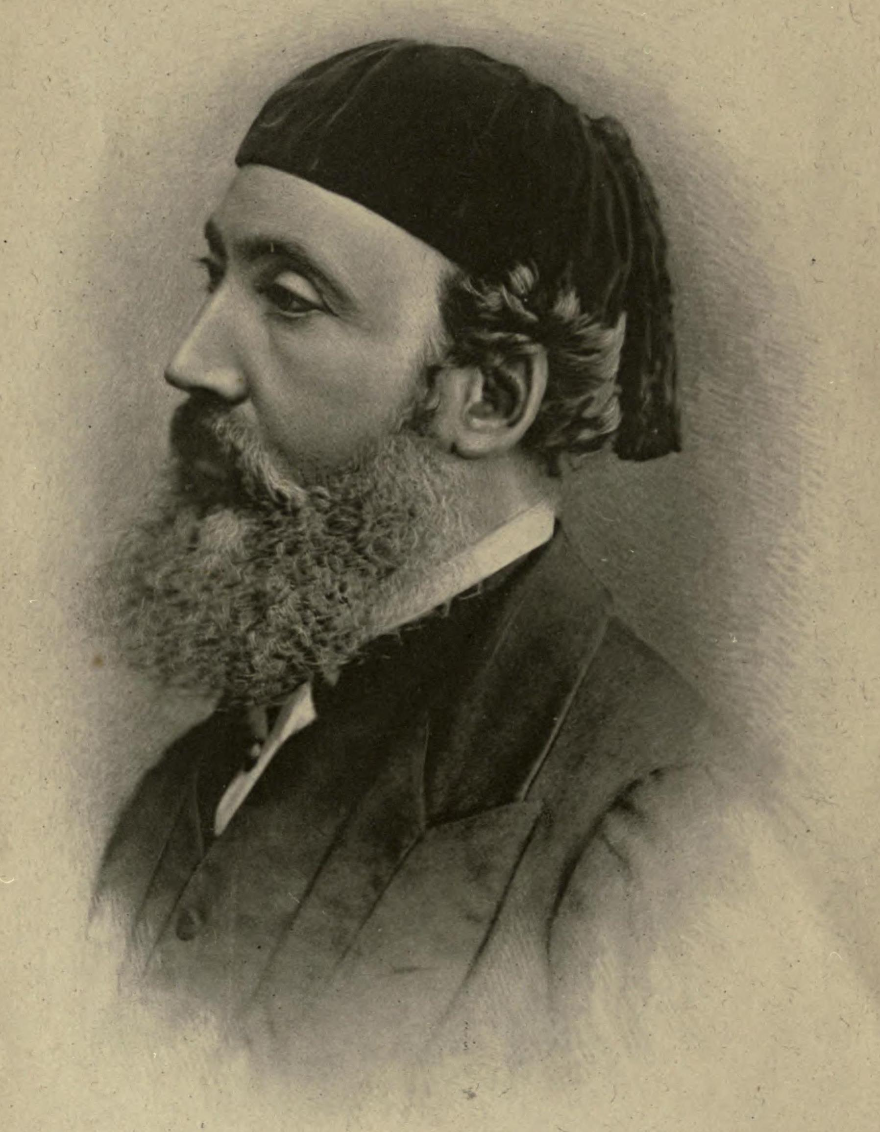 Studio portrait of George Butler, an English divine and schoolmaster